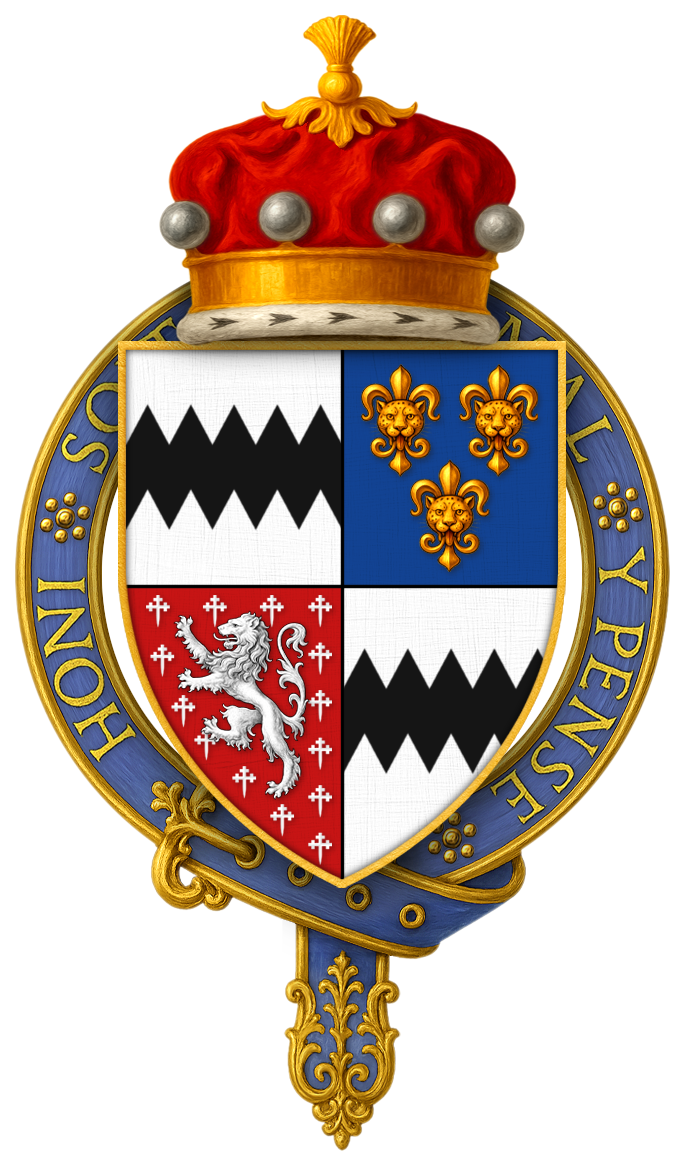 Quartered arms of Sir Thomas West, 8th Baron De La Warr, KG: 1st & 4th: Argent, a fess dancettée sable (West); 2nd & 3rd: Gules crusilly and a lion rampant argent (La Warr) (Kidd, Charles, Debrett's peerage & Baronetage 2015 Edition, London, 2015, p.P336)